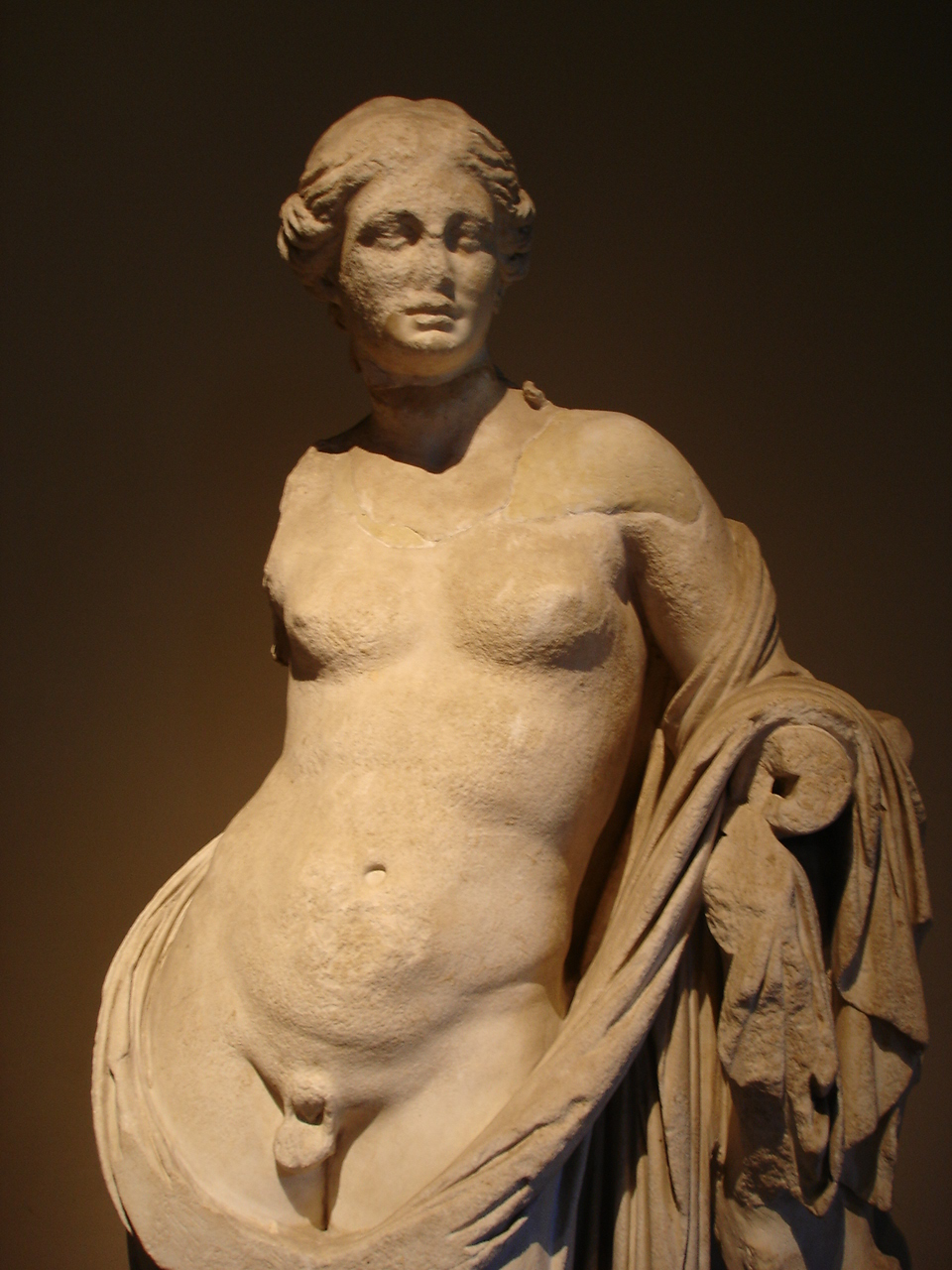 Istanbul - Museo archeologico - Hermaphroditus. 3nd century b.C., from Pergamon. - Picture by: Giovanni Dall'Orto 28-5-2006.